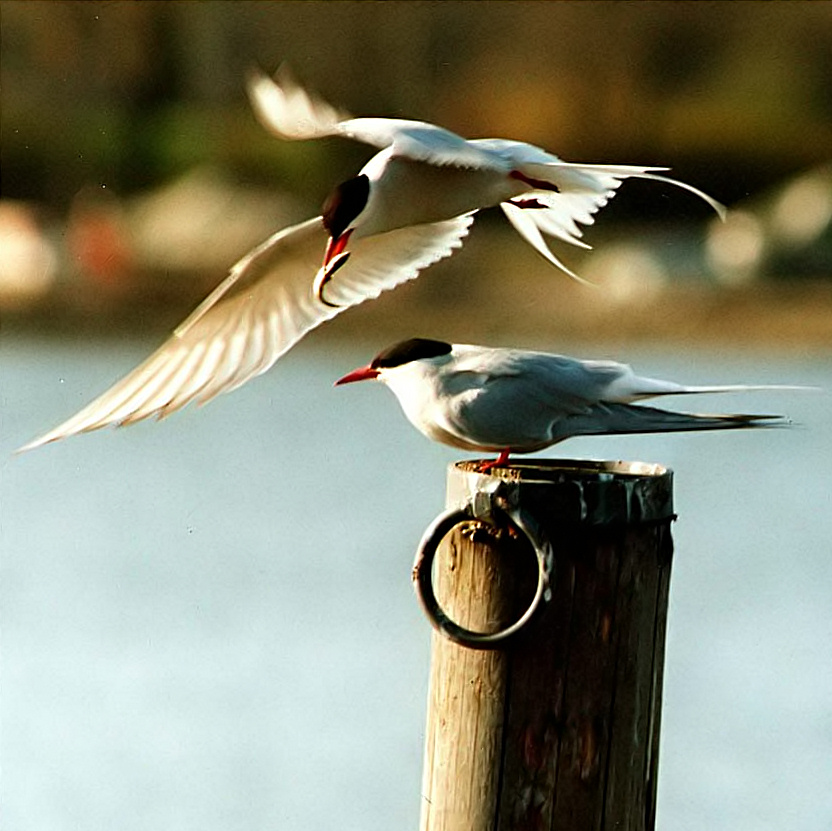 Arctic Terns (Sterna paradisaea)